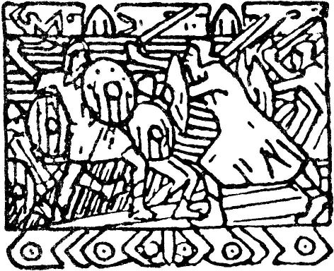 Gerhard Munthe: Illustration for Harald Hårfagres saga. Snorre 1899-edition. vignett 2